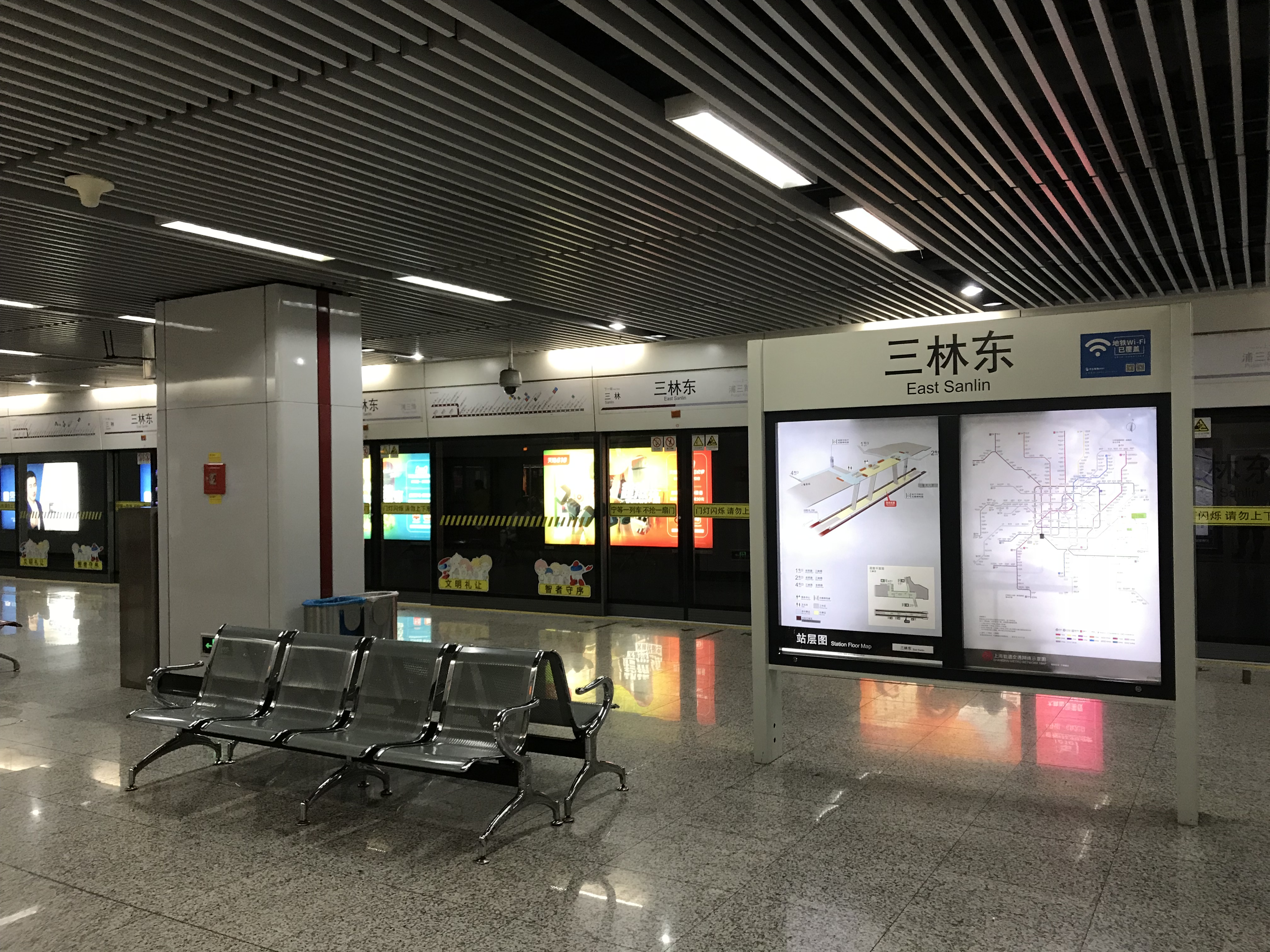 201806 East Sanlin Station